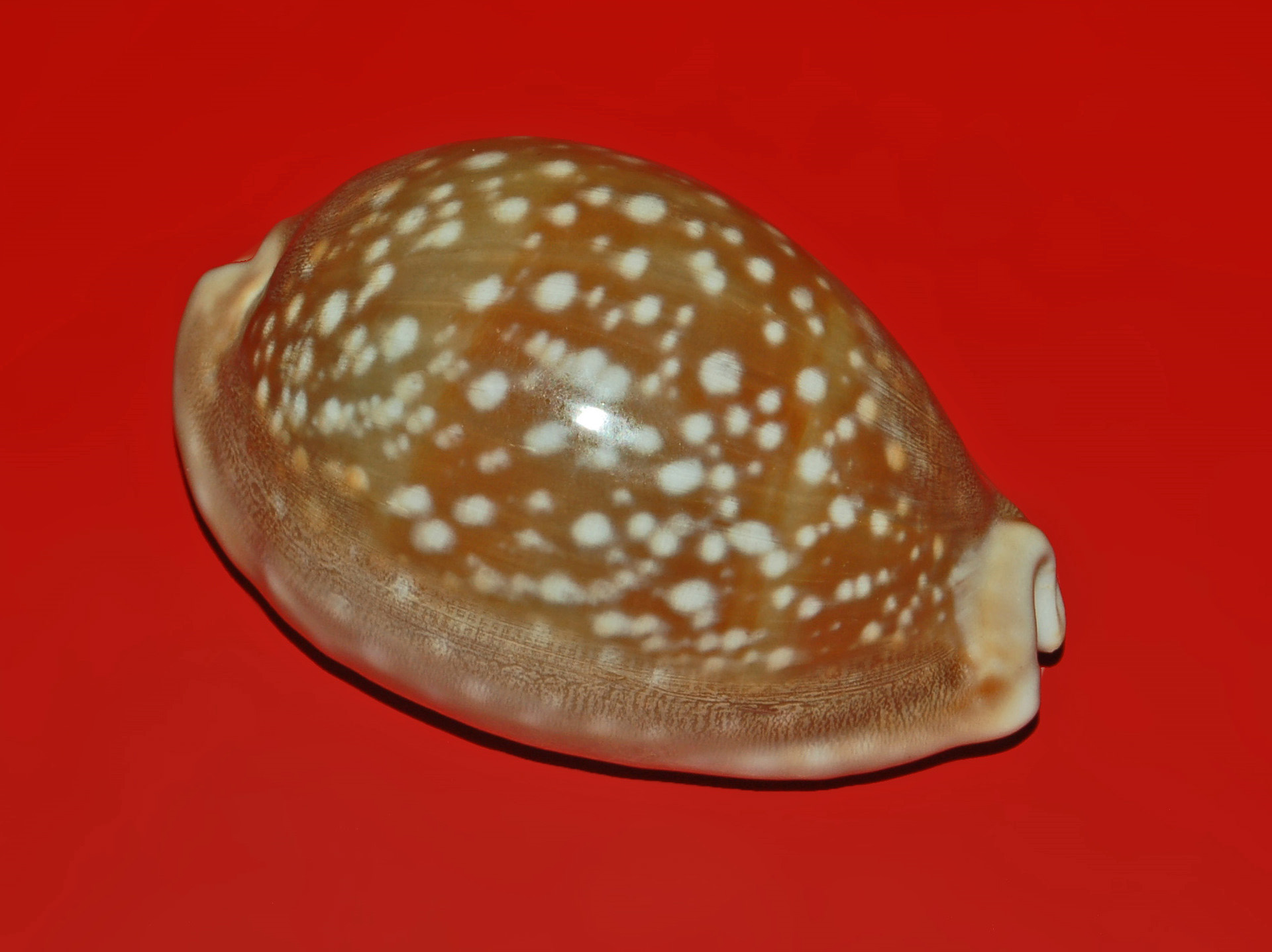 Lyncina vitellus